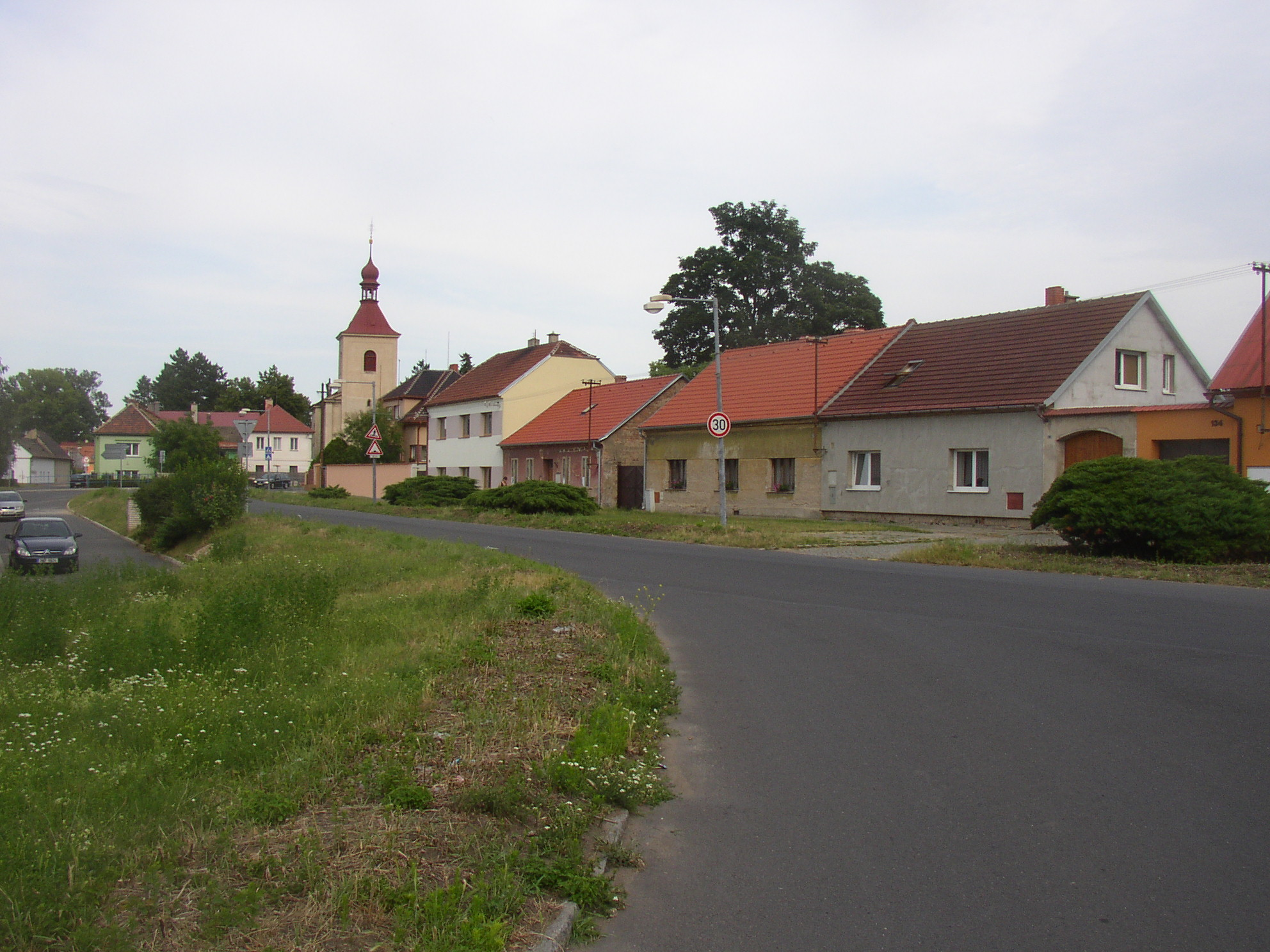 Bohušovice nad Ohří, Litoměřice District, Czech Republic. A view towards ESE along Tyl Street from crossroads with Masaryk Street. In the background SS Procopius and Nicholas church.